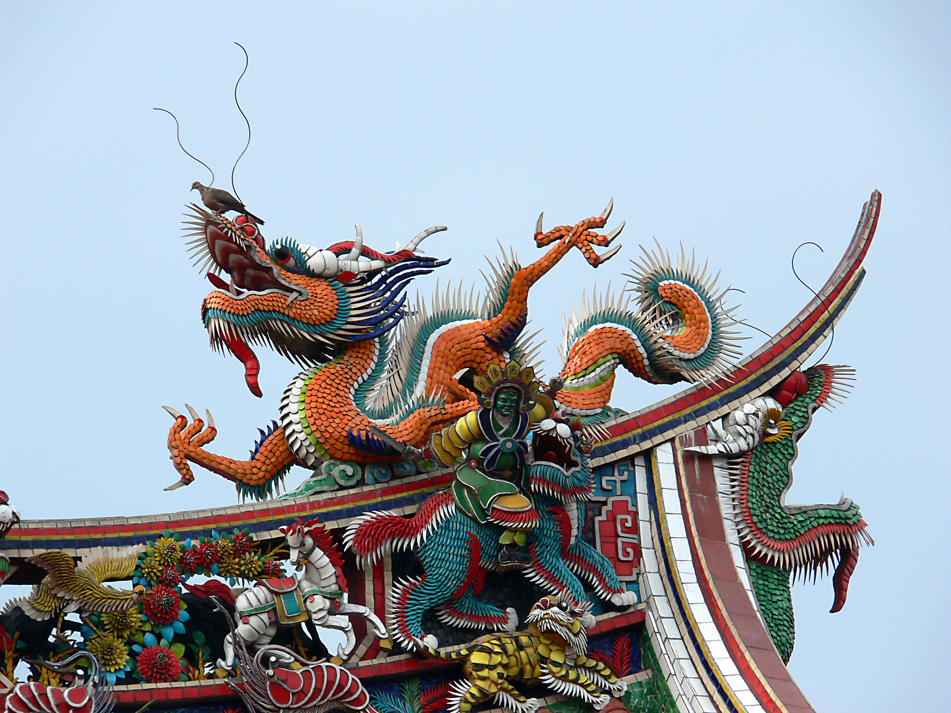 Dragon on Mengjia Longshan Temple.